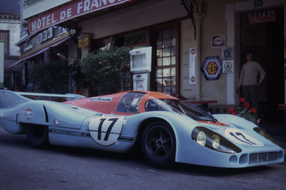 The #17 Porsche 917LH raced by Derek Bell and Jo Siffert at the 1971 Le Mans parked outside the Hotel de France, La Chartre-sur-le-Loir before being loaded onto to its trailer to go to the circuit.